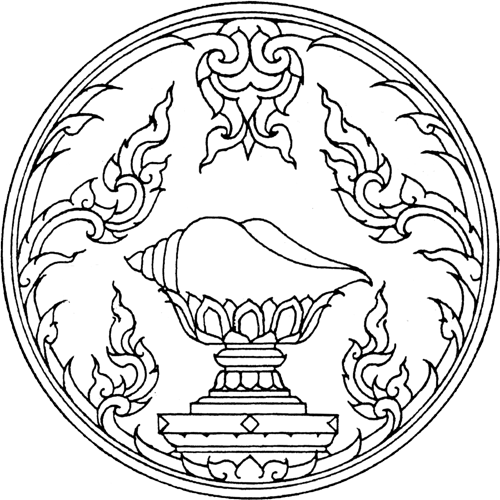 Provincial seal of Songkhla province.